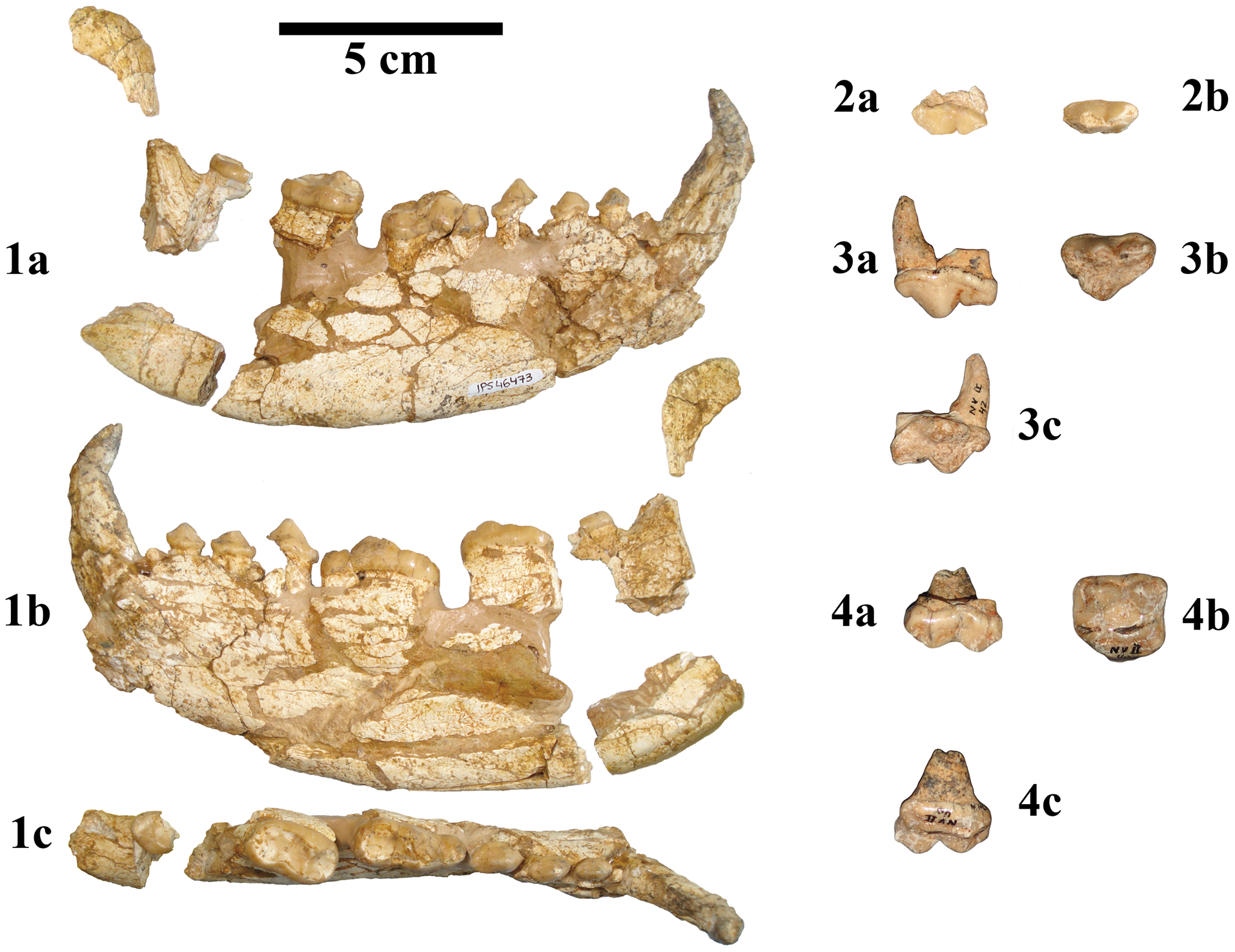 Fossil lower jaws of Kretzoiarctos beatrix